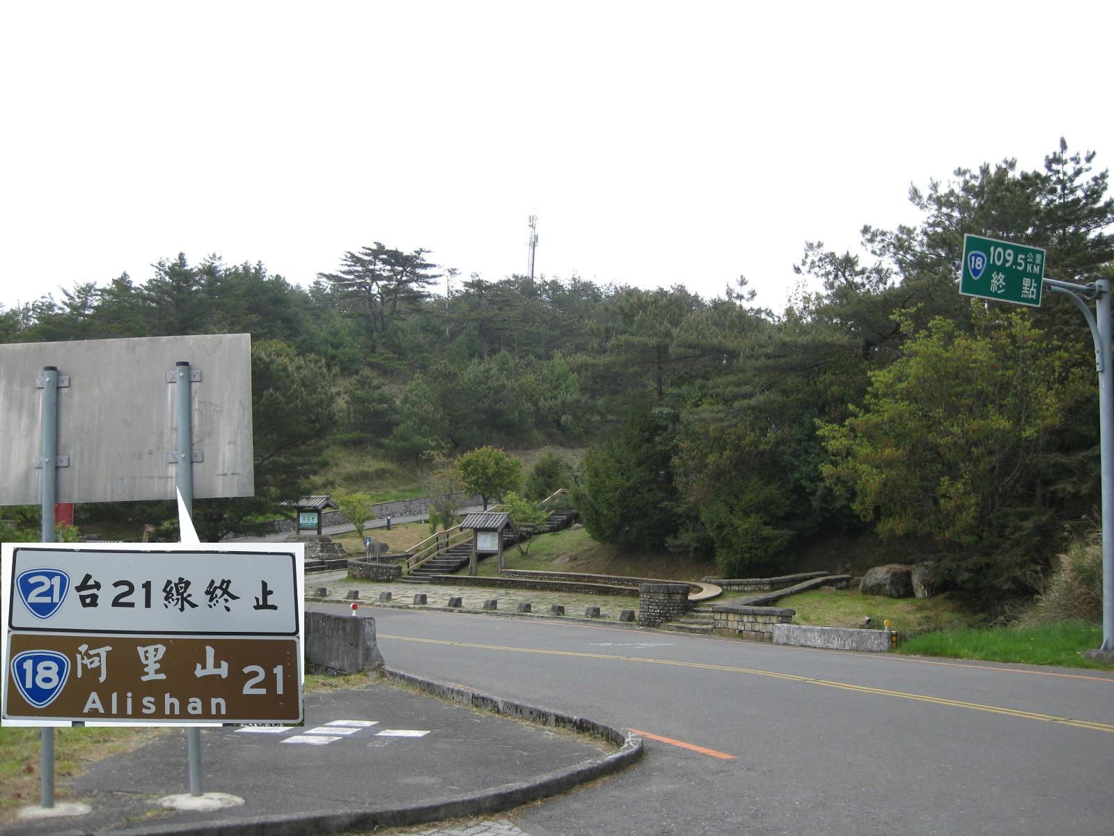 Tataka taken in Yushan National Park.